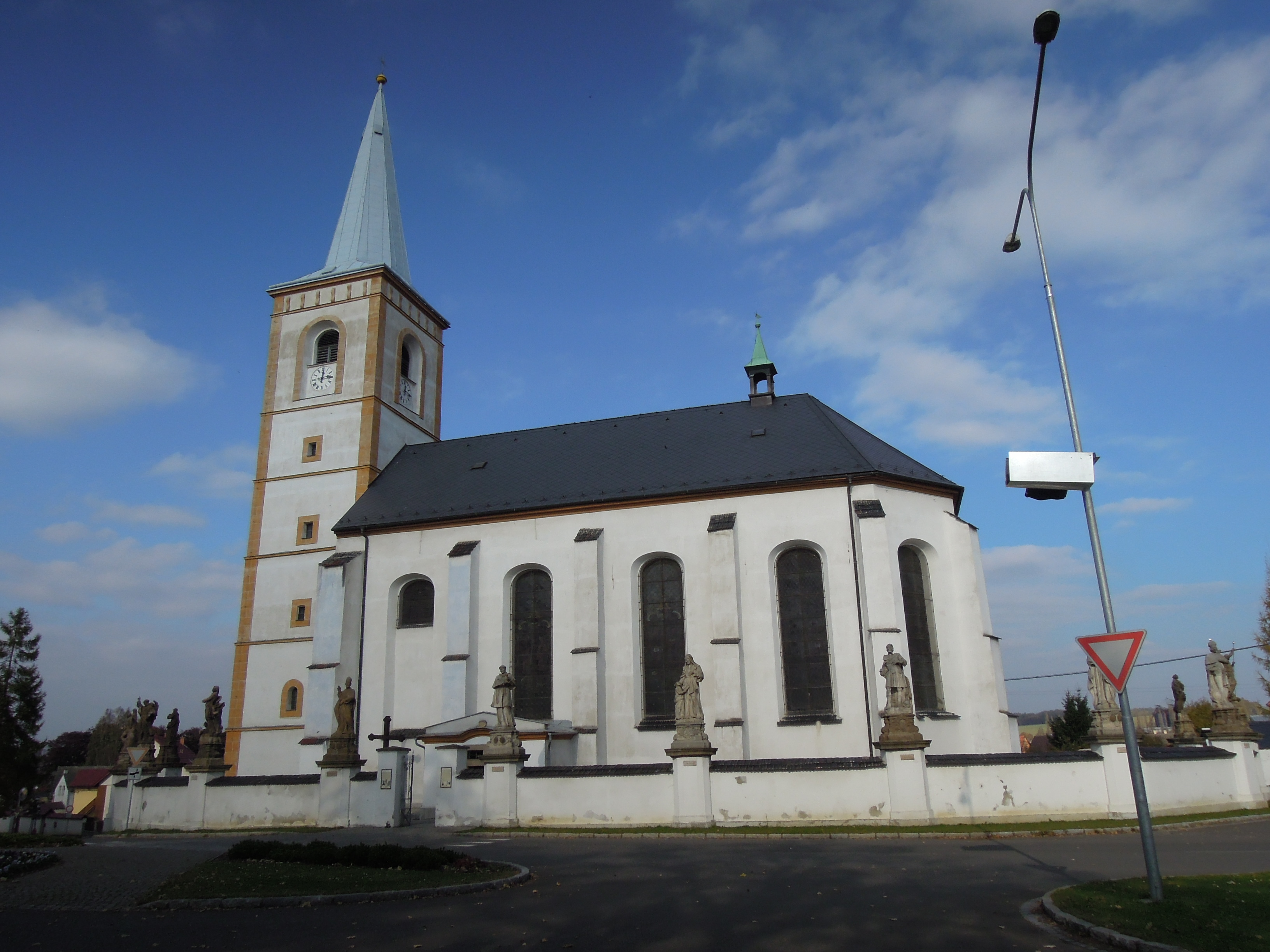 Church in Hustopeče nad Bečvou, Přerov District, Olomouc Region, Czech Republic